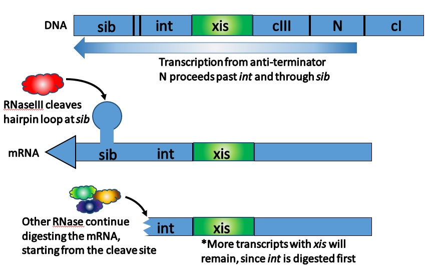 Diagram showing the int/xis retroregulation process that takes place in lytic phage lambda, whereby the mRNA transcript is digested from the cleaved hairpin loop at sib